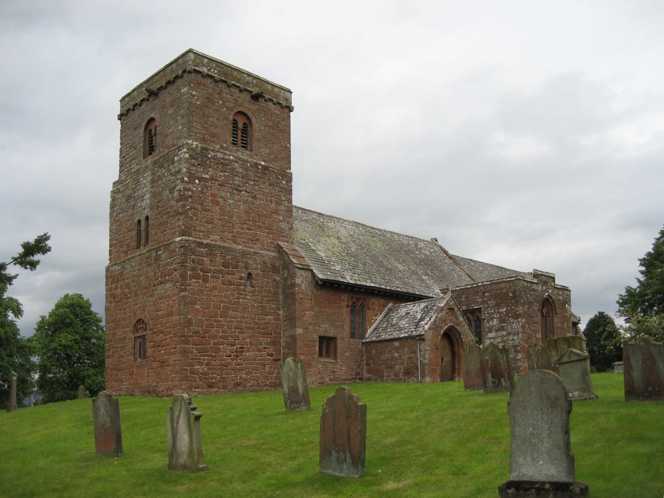 Church of St Margaret and St James seen from the south west